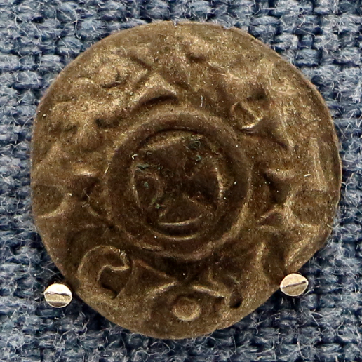 coins in Palazzo Blu (Pisa)